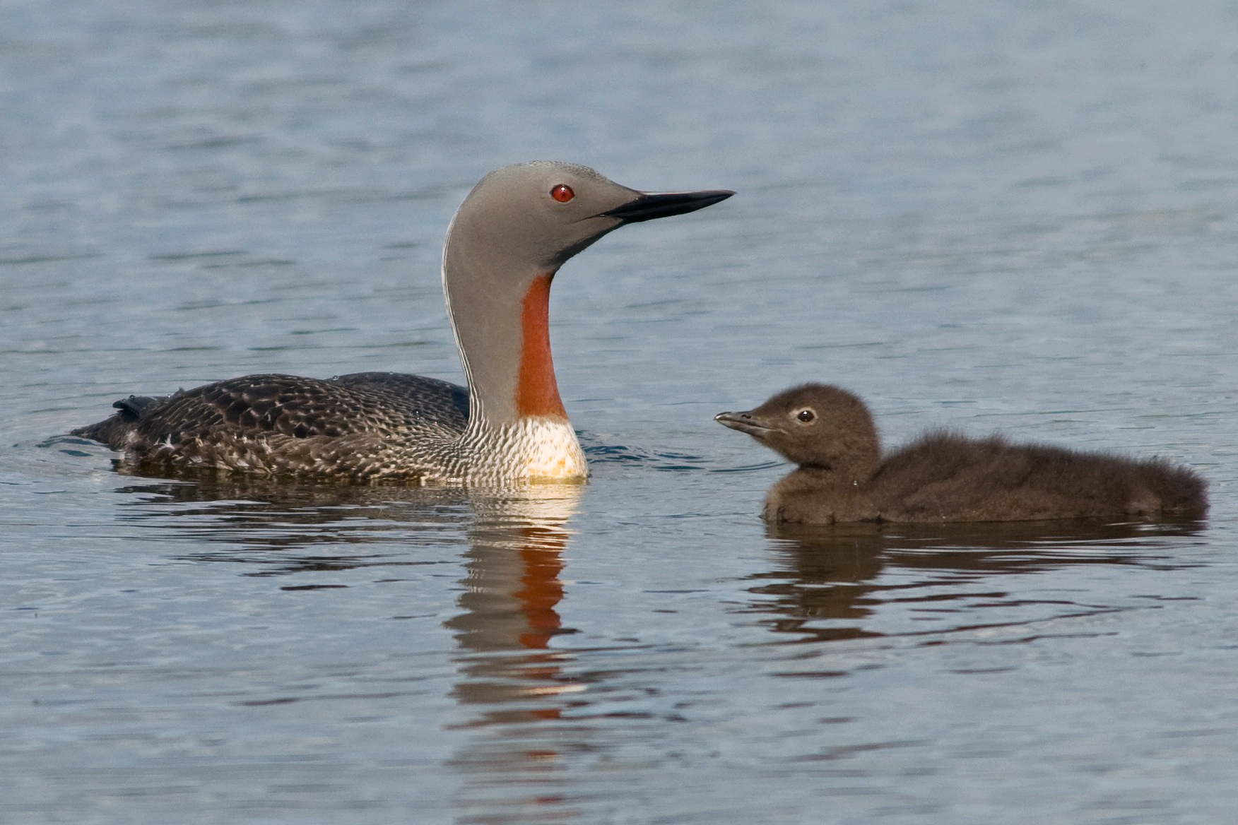 An adult Red-throated Loon (also known as Red-throated Diver) with young swimming near to Ölfusá in Iceland.